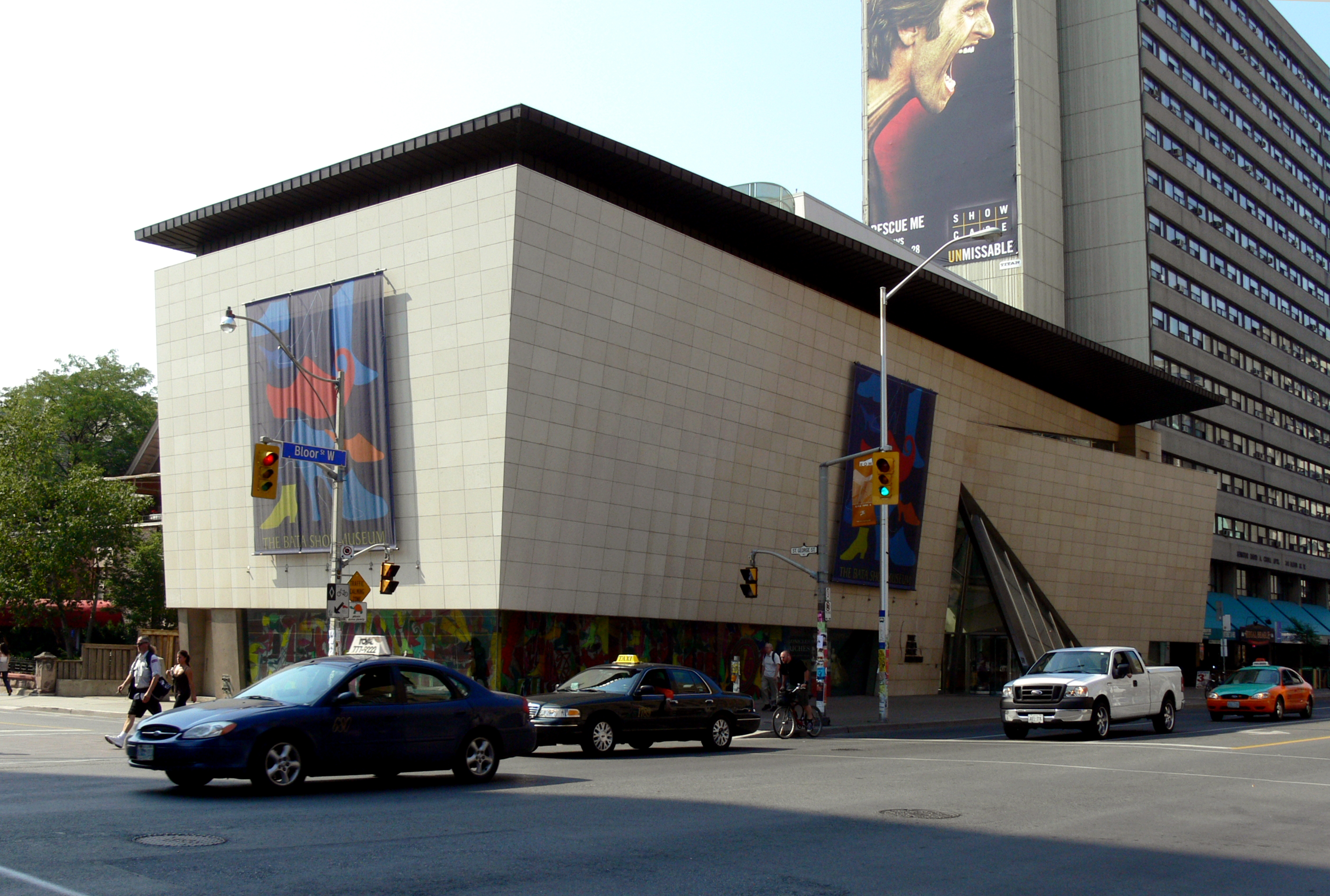 Bata Shoe Museum, Bloor Street West, Toronto